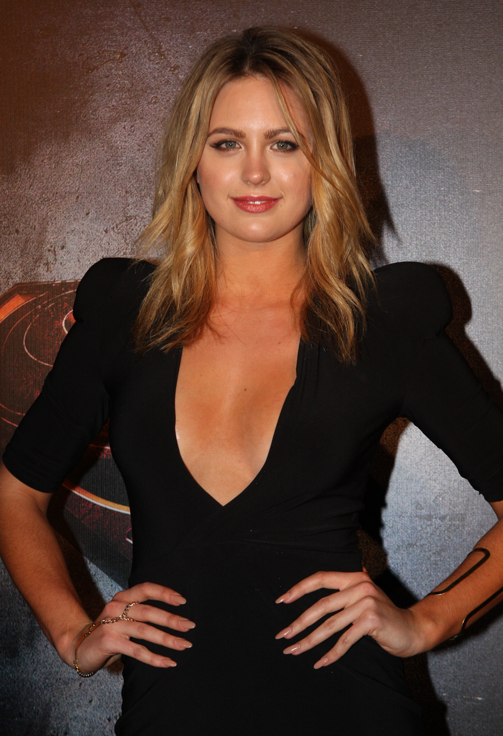 Jesinta Campbell at Man Of Steel red carpet movie premiere, Sydney, in June 2013